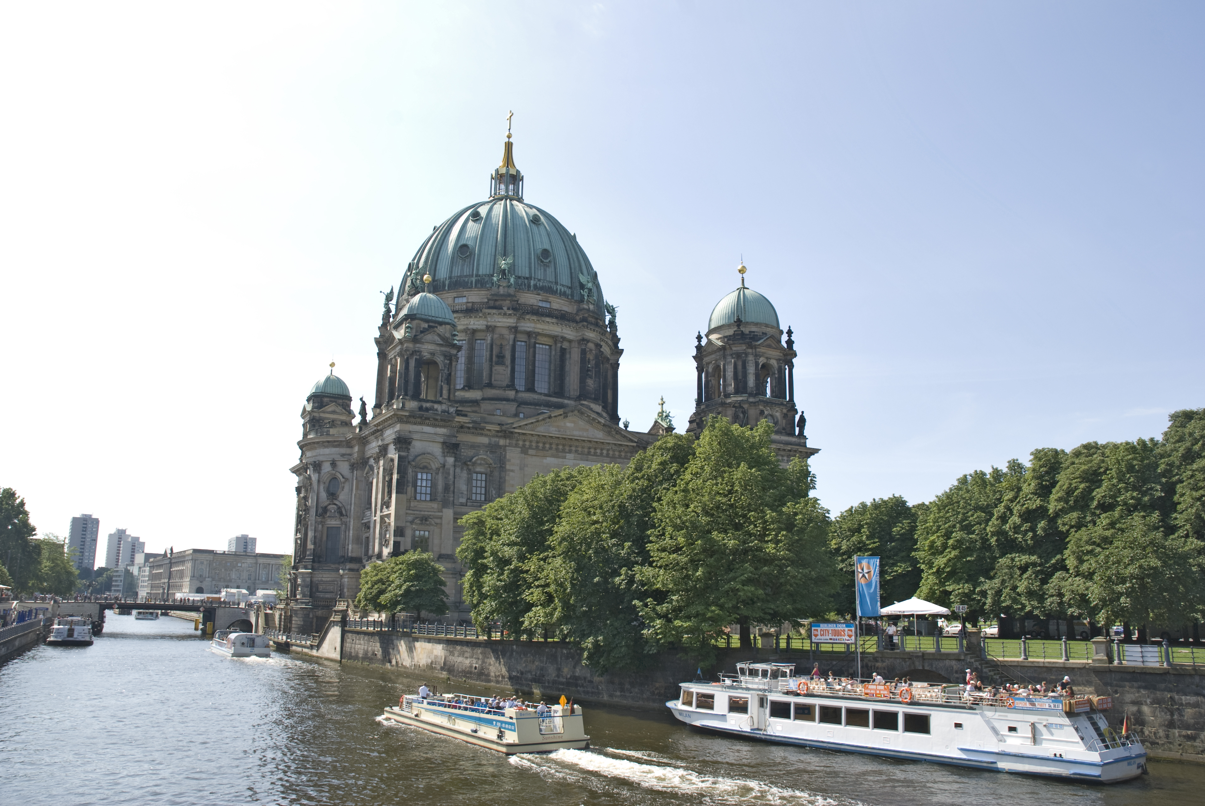 View from the bridge, Berlin, Germany